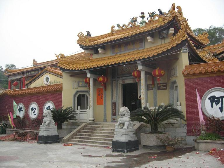 Buddhist temple gate in Guangdong, China. Chinese stone lions.